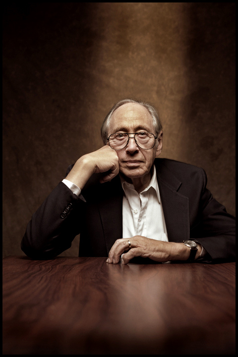 Alvin Toffler. Taken at Beverly Hills, California.